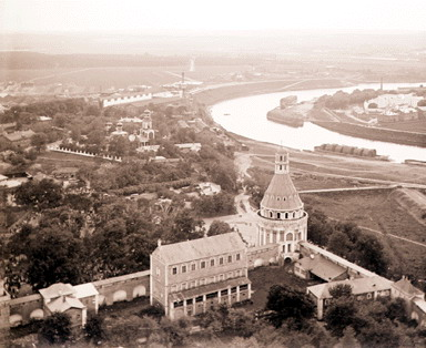 Simonov monastery in Moscow. A sight from the bell-tower